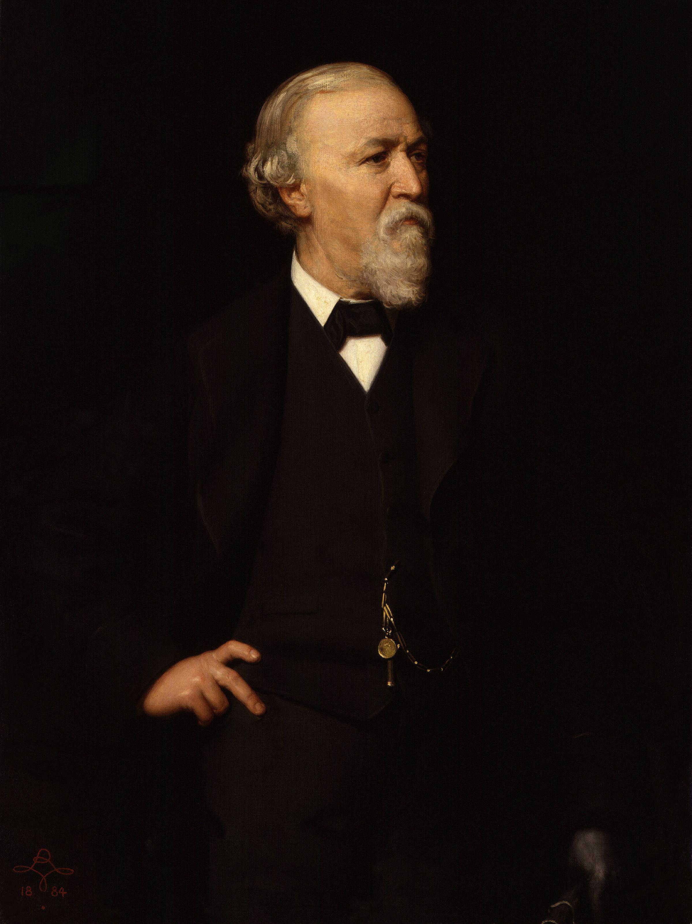 Portrait of Robert Browning, by Rudolph Lehmann (died 1905), given to the National Portrait Gallery, London in 1890. All images in this batch have been confirmed as author died before 1939 according to the official death date listed by the NPG.